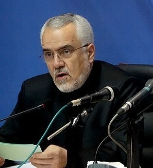 Iranian First Vice President Mohammad-Reza Rahimi during last government meeting in Mashhad